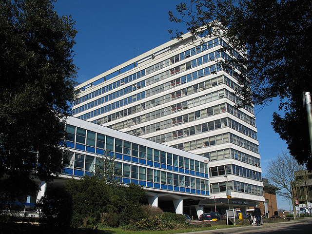 Barnet House at 1255 High Road, on the corner of Baxendale at Whetstone - Photo taken from Baxendale. One time Ever Ready House of the British Ever Ready Electrical Company (BERET), it now houses London borough of Barnet employees. It once 'doubled' as "The Swiss National Bank" when one scene from The Saint was filmed there. Information regarding Ever Ready and the episode of The Saint kindly supplied by Richard Tearle.